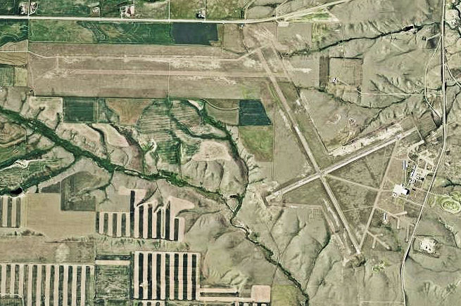 USGS digital orthophoto of Cut Bank Municipal Airport in Montana